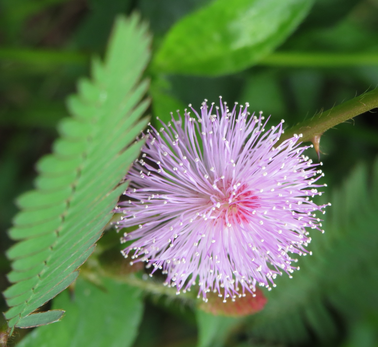 Mimosa pudika flower from Thrissur, Kerala, India